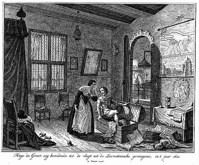 Hugo Grotius